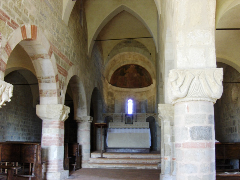 interior of San Secondo, Cortazzone, Piedmont